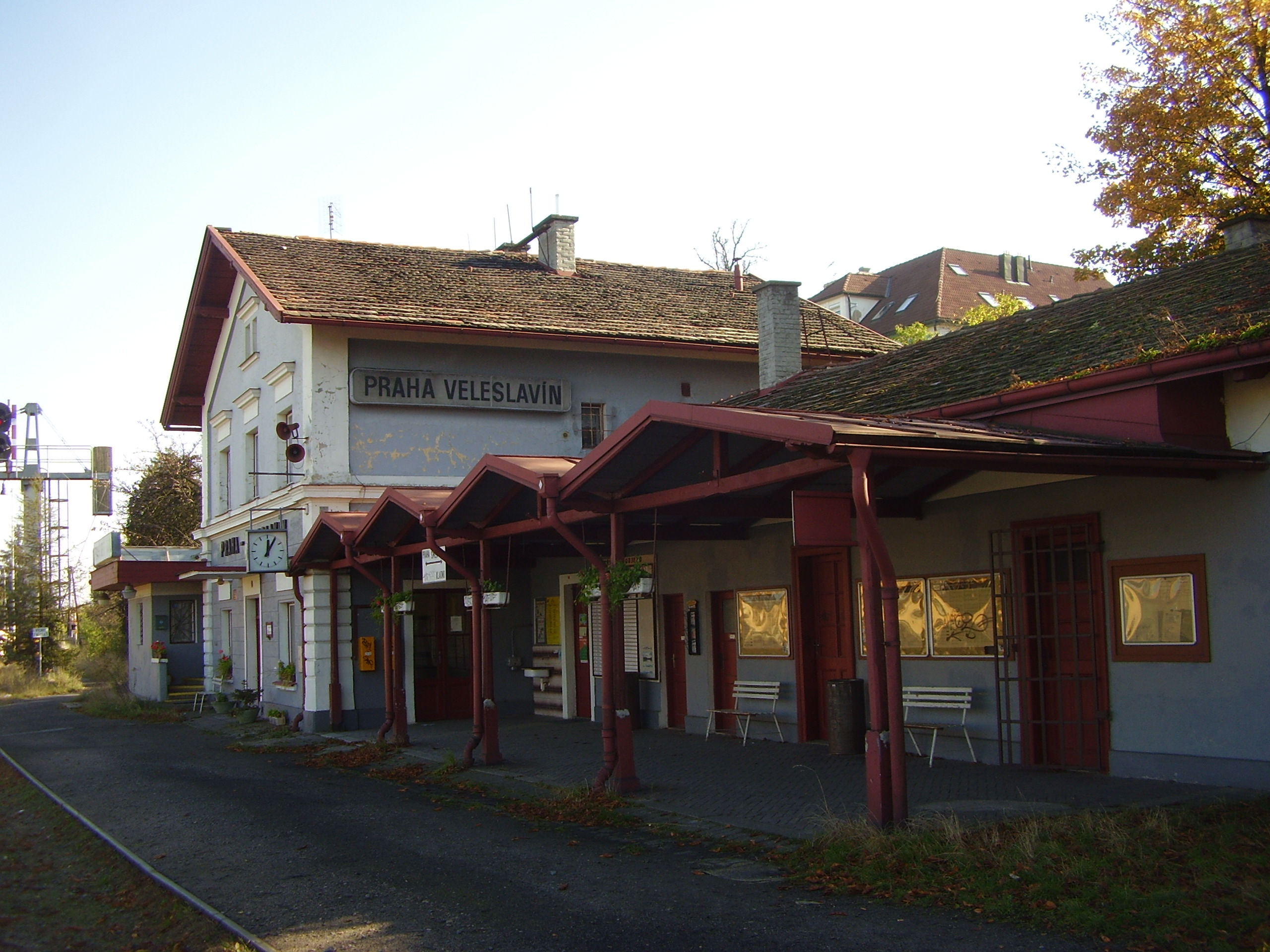 Train station Praha-Veleslavín, Veleslavín, Prague 6